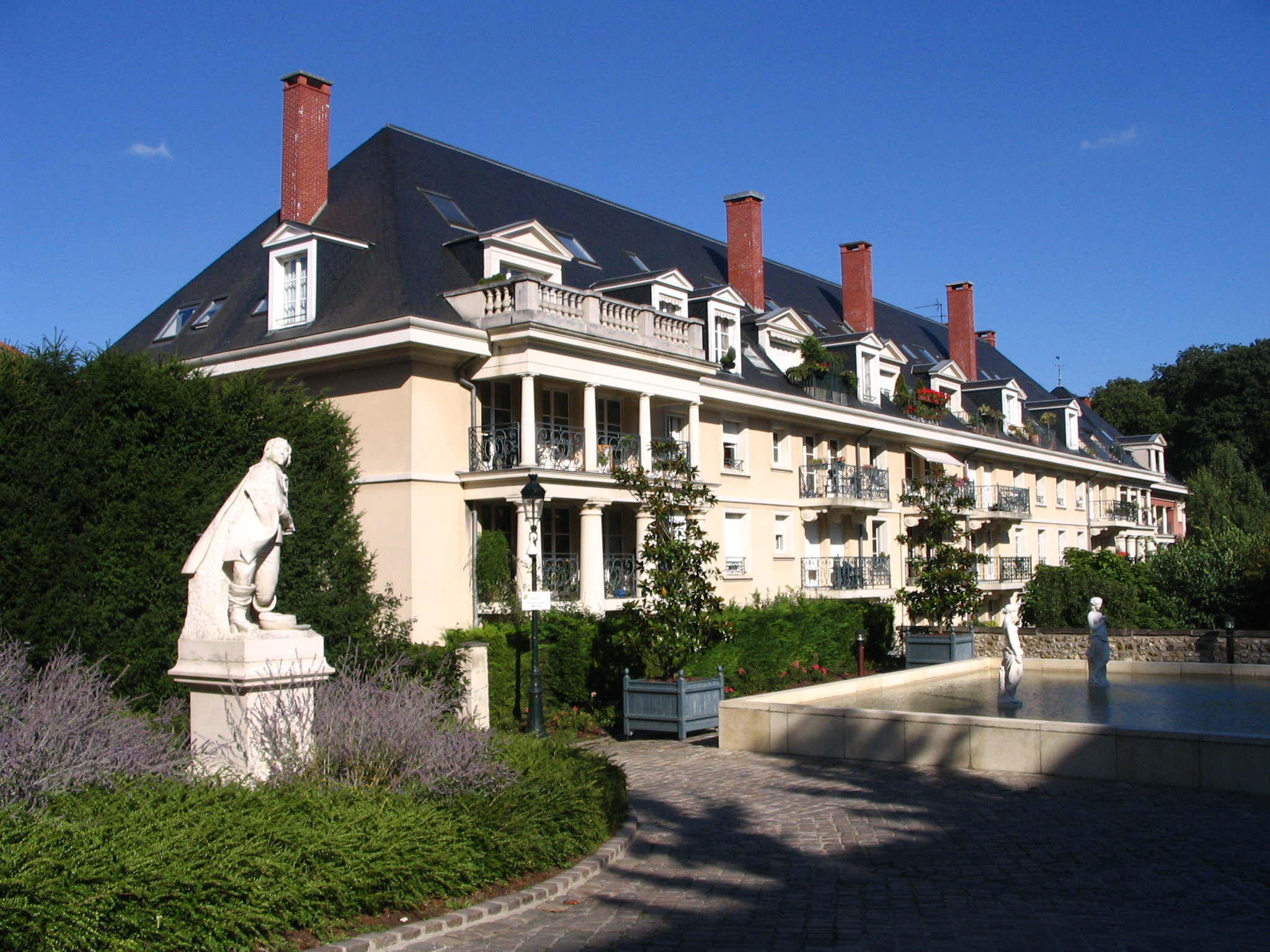 The square surrounding the town hall of Le Plessis-Robinson, Hauts-de-Seine, France.